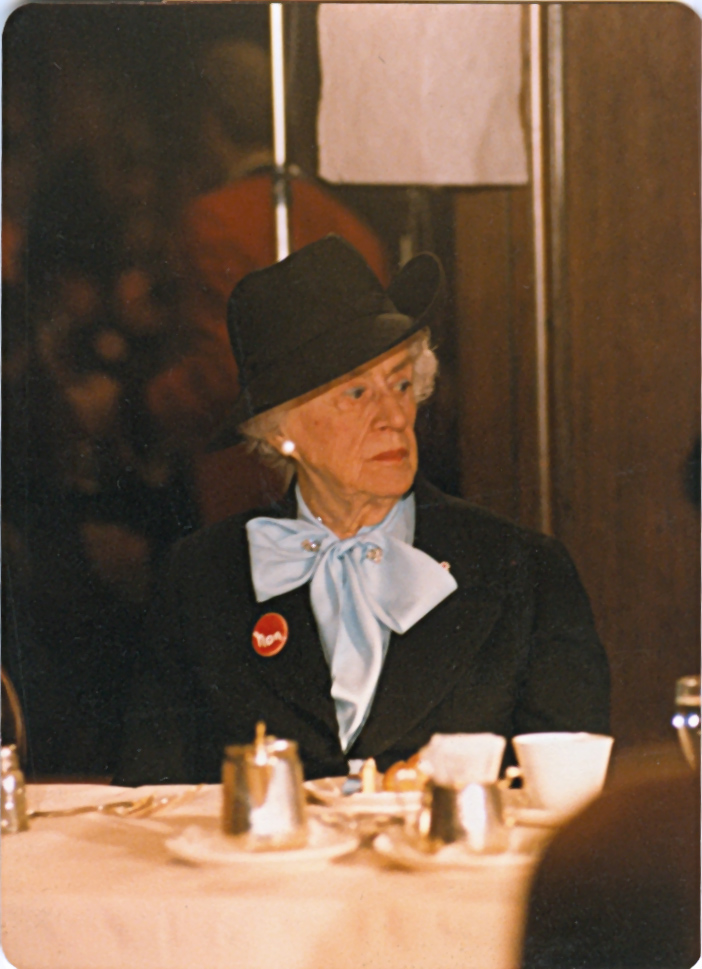 Thérèse Casgrain at a fundraising meeting for the Liberal Party at the Queen Elizabeth Hotel in Montréal, Québec.